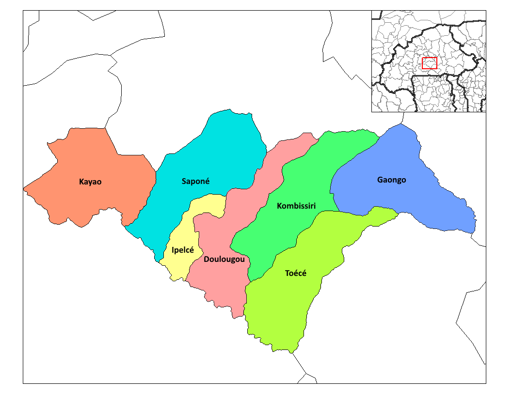 This map has been uploaded by Osiris fancy from to enable the Wikimedia Atlas of the World. Original uploader to was Rarelibra. Osiris fancy is not the creator of this map. Licensing information is below. Map of the departments of Bazega province in Burkina Faso. Created by Rarelibra 03:11, 30 September 2006 (UTC) for public domain use, using MapInfo Professional v8.5 and various mapping resources.